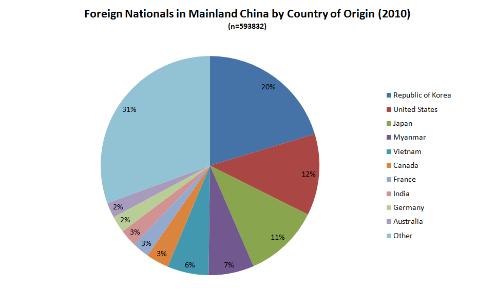 Breakdown of foreign nationals in Mainland China according to the Sixth National Population Census of the People's Republic of China (2010).